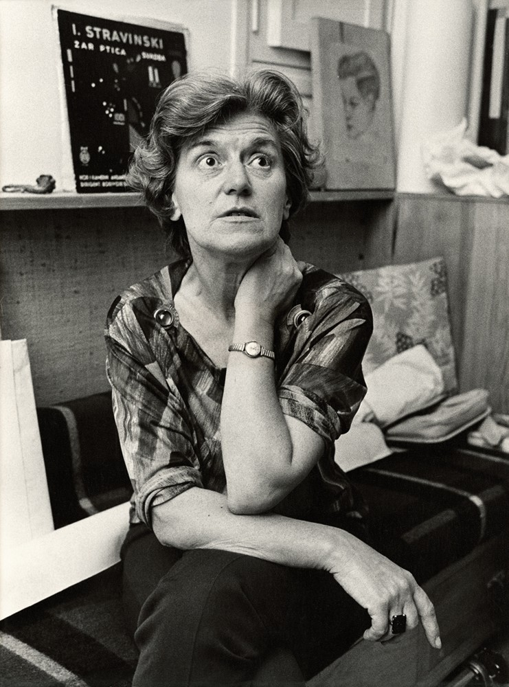 Photography